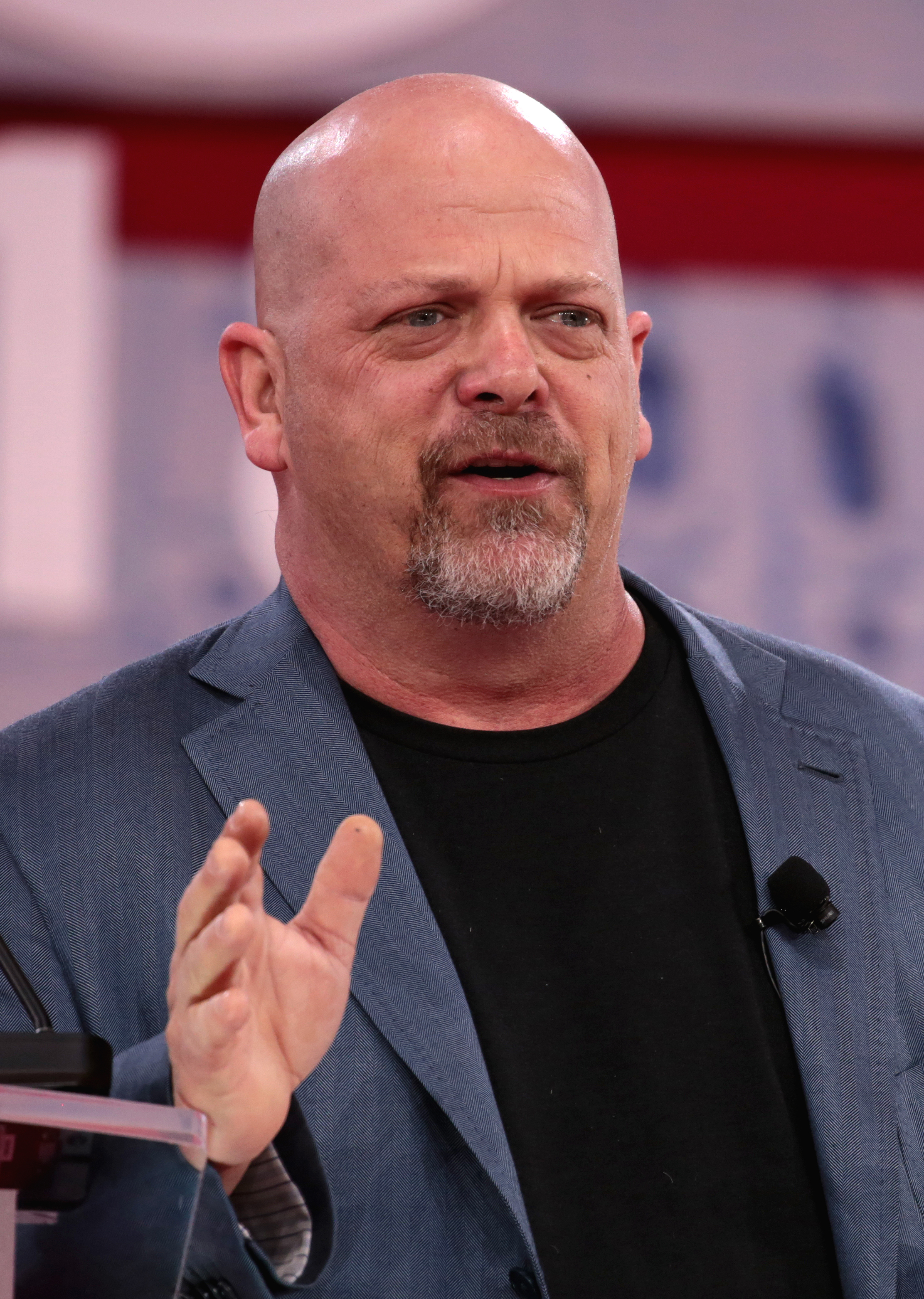 Rick Harrison speaking at the 2018 CPAC in National Harbor, Maryland.